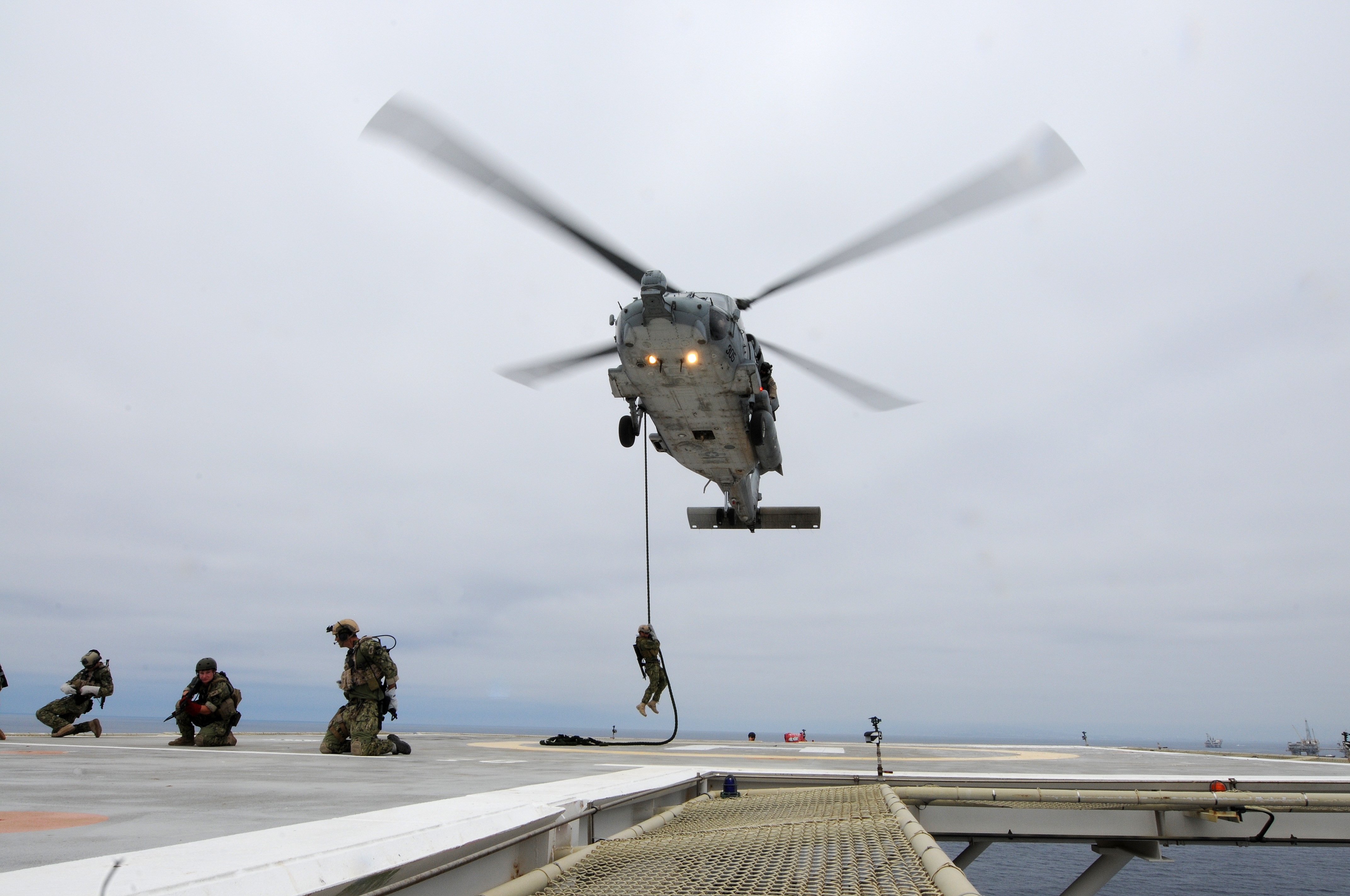 LONG BEACH, Calif. (July 28, 2011) U.S. Navy SEALs conduct fast roping from an HH-60H Sea Hawk helicopter assigned to the High Rollers of Helicopter Sea Combat Squadron (HSC) 85 onto a gas and oil platform. SEALs conduct these evolutions to hone their various maritime operations skills. (U.S. Navy photo by Mass Communication Specialist 3rd Class Adam Henderson/Released) 110728-N-WA189-188